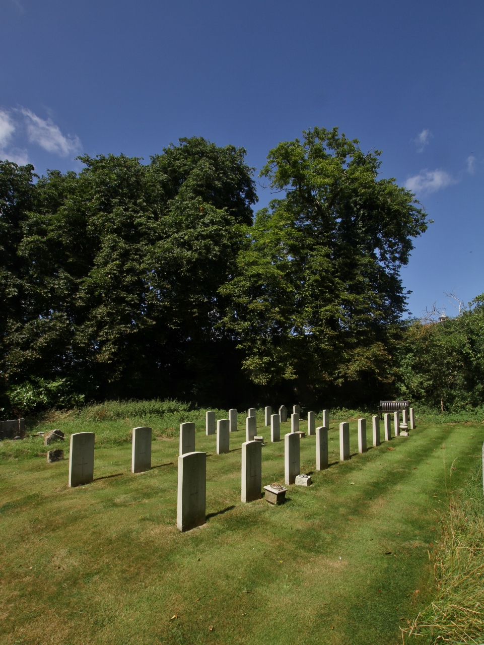 Commonwealth War Graves Commission section of St Laurence's parish churchyard, Caversfield, Oxfordshire, seen from the southeast